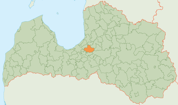 Map of Ropaži municipality, Latvia